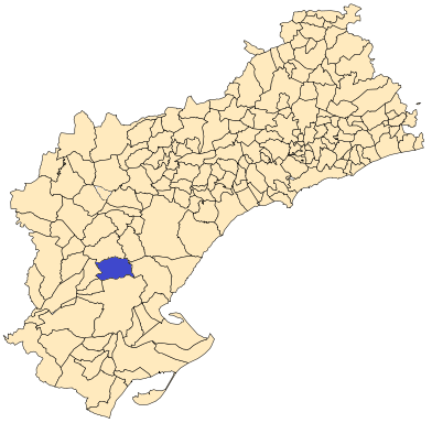 Tivenys